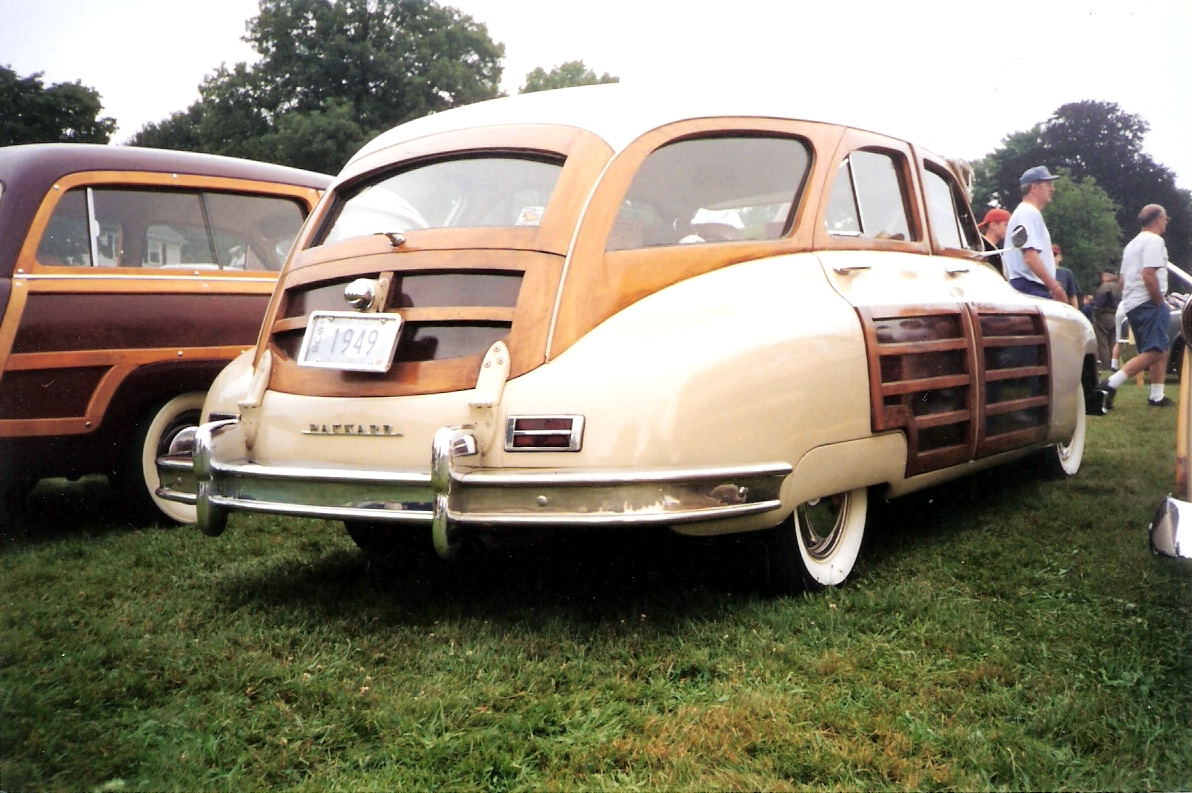 1949 Packard Station Sedan I photographed at the Endicott Estate Auto Show in Dedham, Massachusetts.